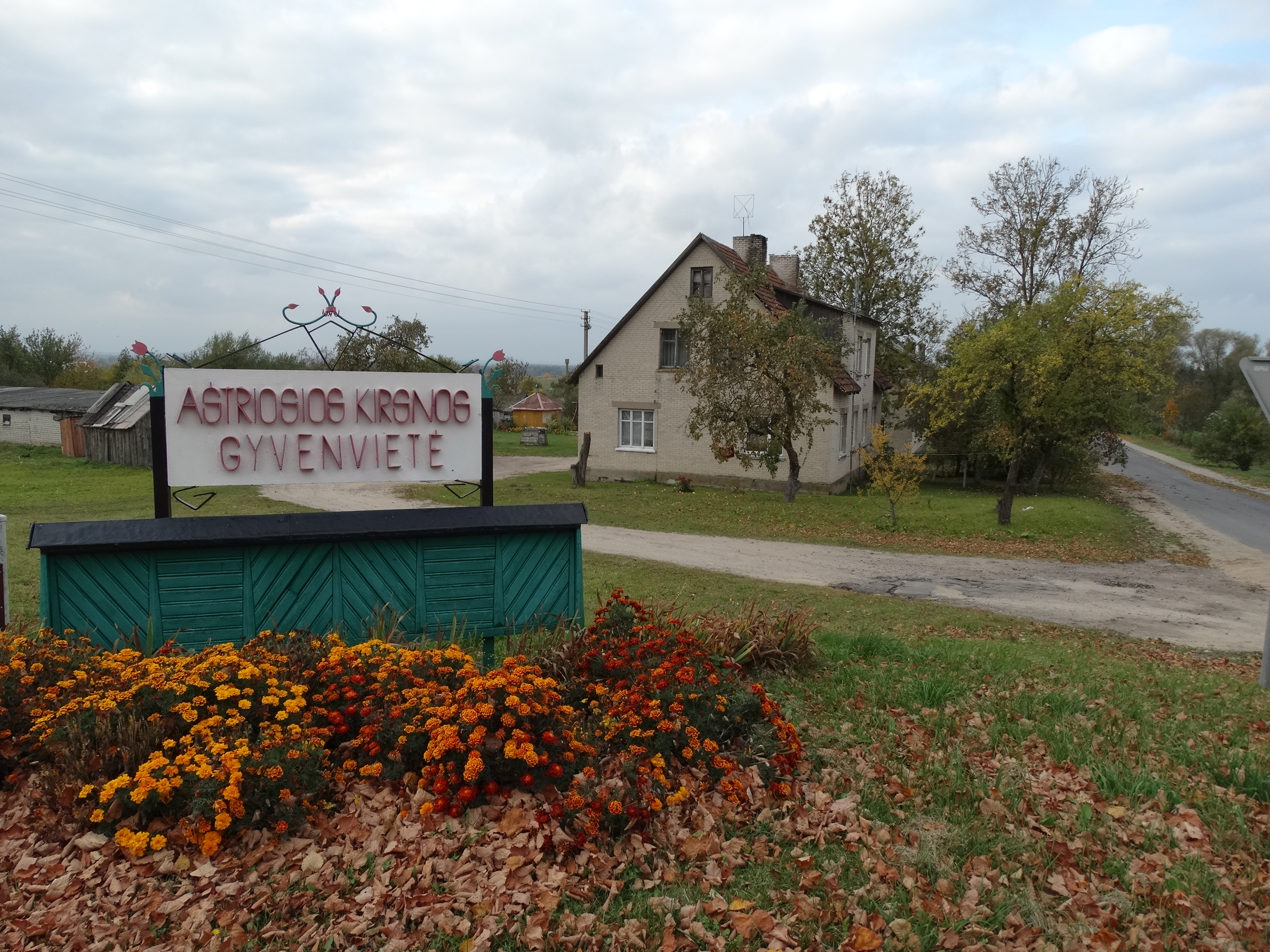 Aštrioji Kirsna, Lazdijai district, Lithuania